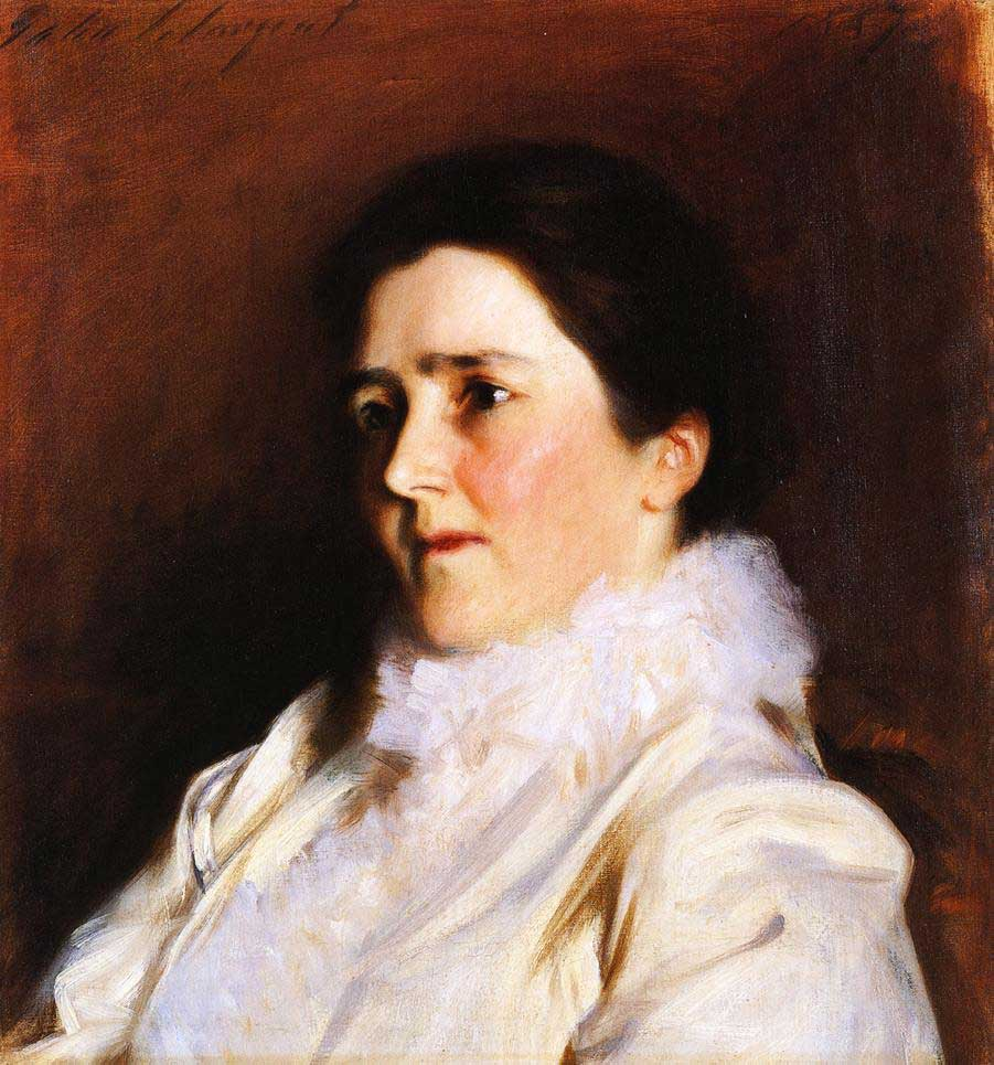 Portrait of Elizabeth Nelson Fairchild John Singer Sargent -- American painter 1887 Brunswick College Museum of Art, ME Oil on canvas 49.69 x 46.36 cm (19 9/16 x 18 1/4 in.) Museum Purchase, George Otis Hamlin Fund and Friends of the College Fund assession # 1985.40 Jpg: the-athenaeum